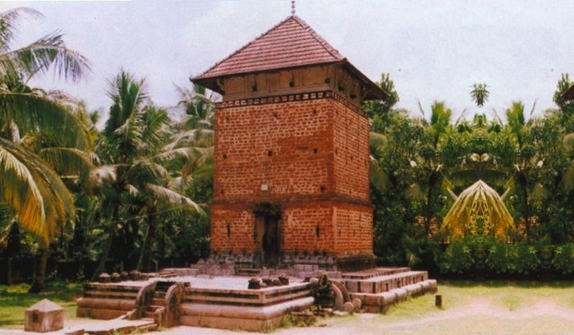 Keezhthali Mahadeva Temple